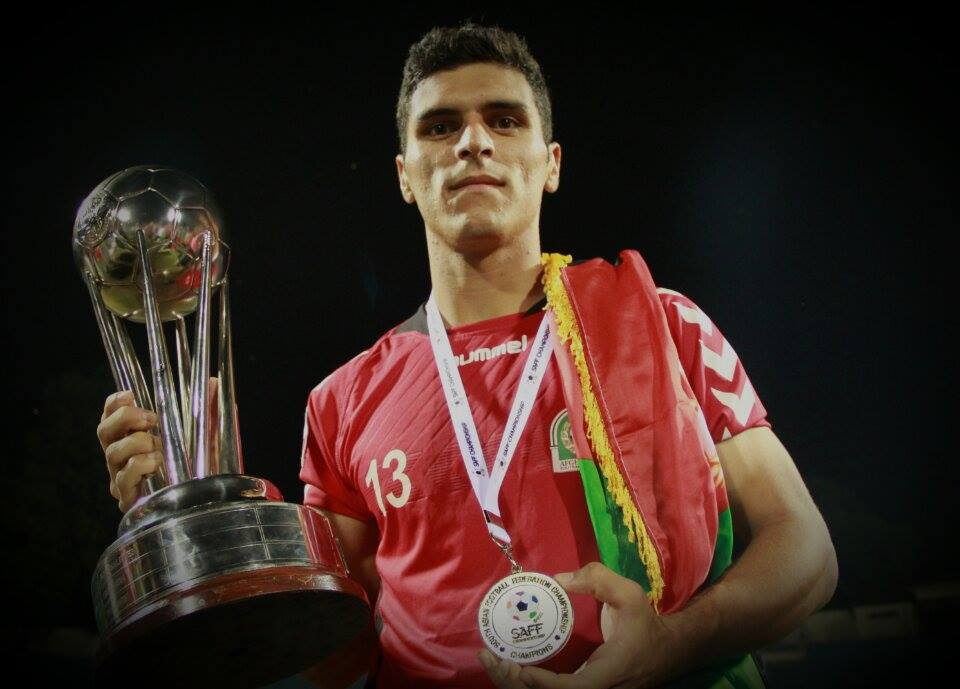 Hamid Karimi With 2013 SAFF Championship Trophy